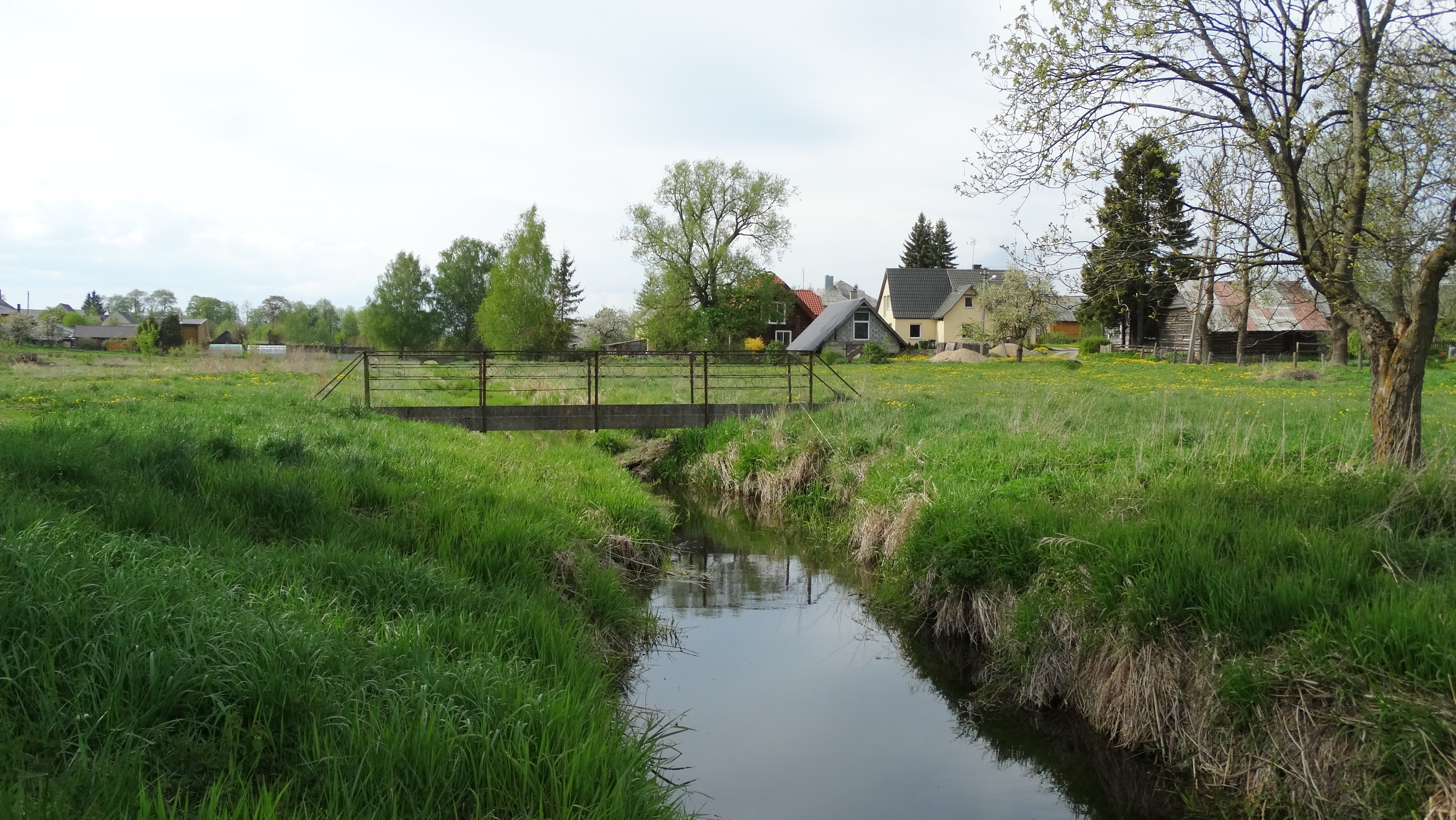 Niauduva stream, Šeduva, Lithuania